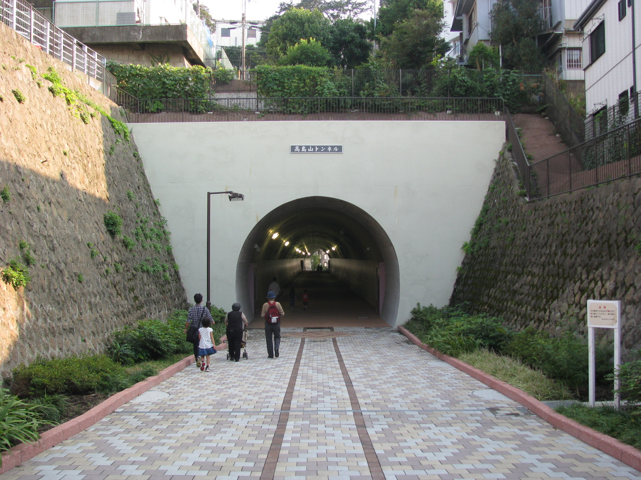 The Takashima-yama tunnel on Toyoko Flower Green way. This location is Kami-tanmachi in Kanagawa-ku, Yokohama, Kanagawa, Japan.